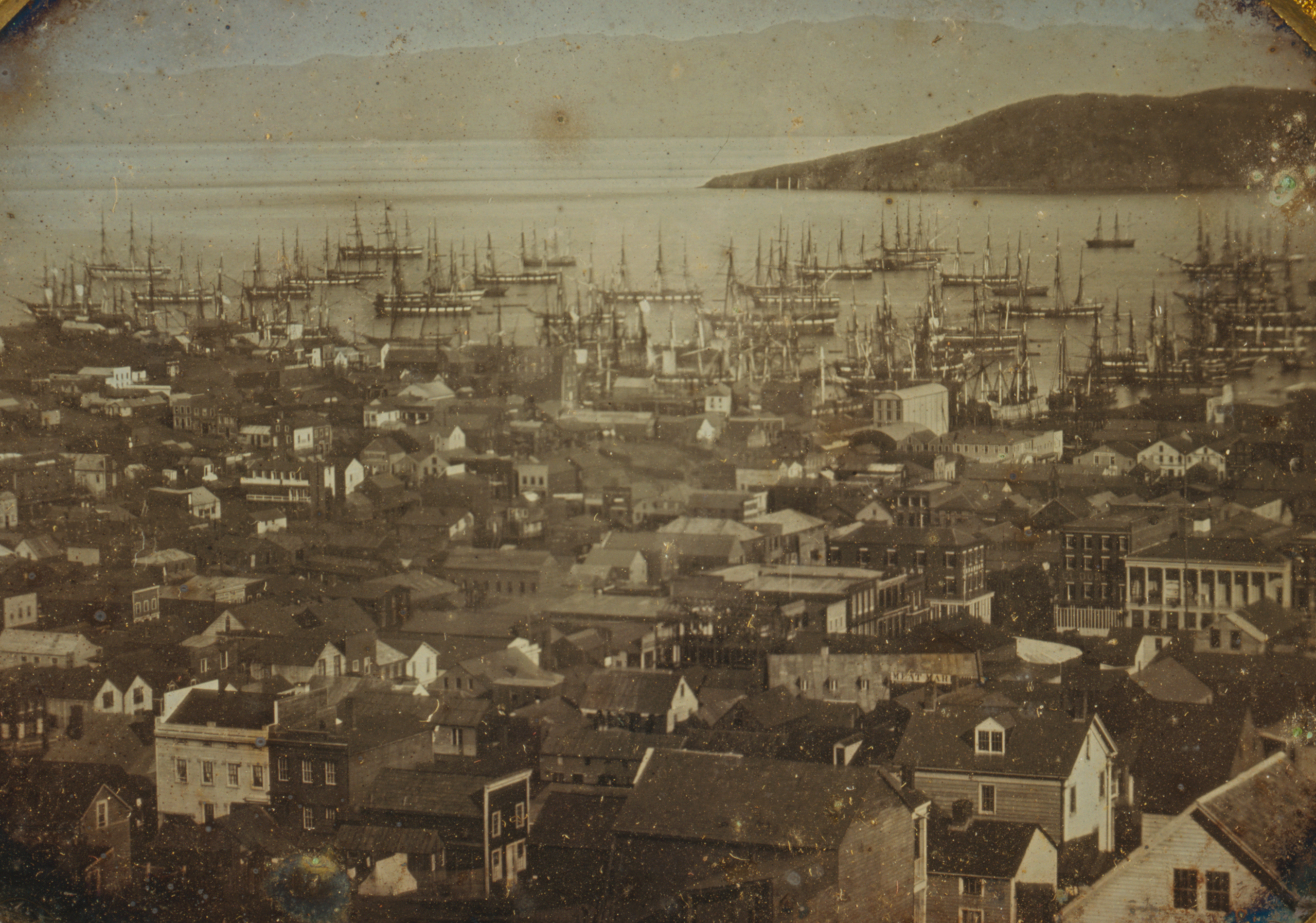 San Francisco harbor, 1850 or 1851, with Yerba Buena Island in the background. Daguerrotype.